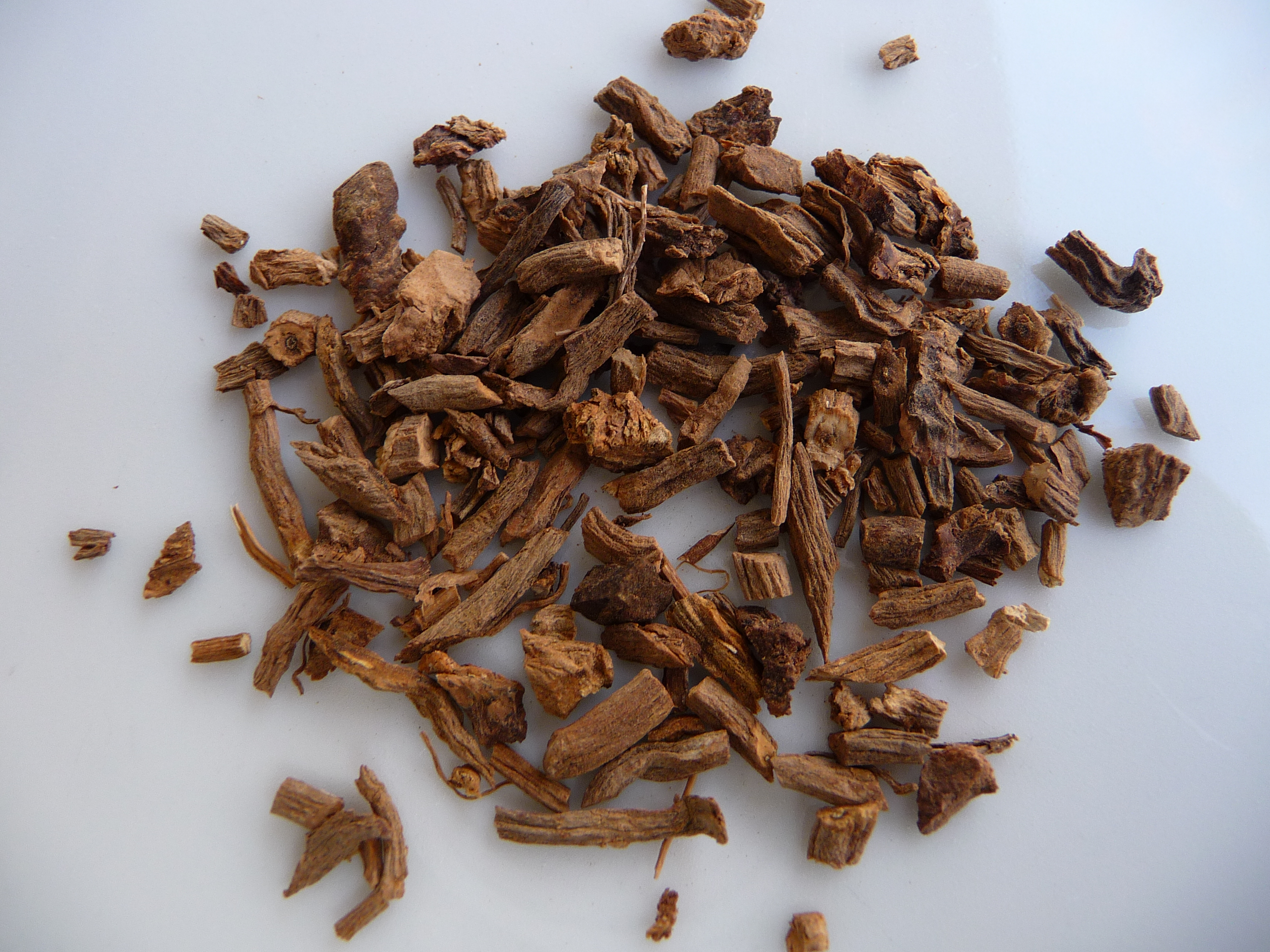 dried valerian root